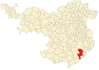 Santa Cristina d'Aro